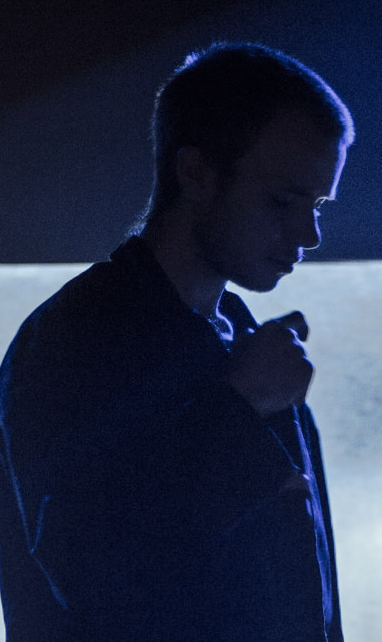 Corbin & Shlohmo live at the Mod Club. September 25th, 2017